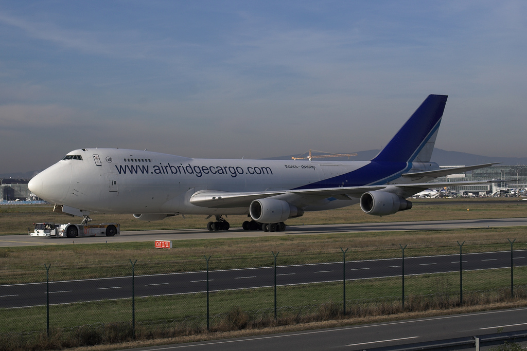 Air Bridge Cargo Boeing 747-200F VP-BID